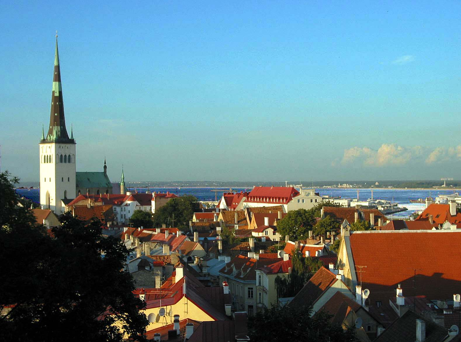 The old town of Tallinn at sunset, with St. Olav Church and harbour